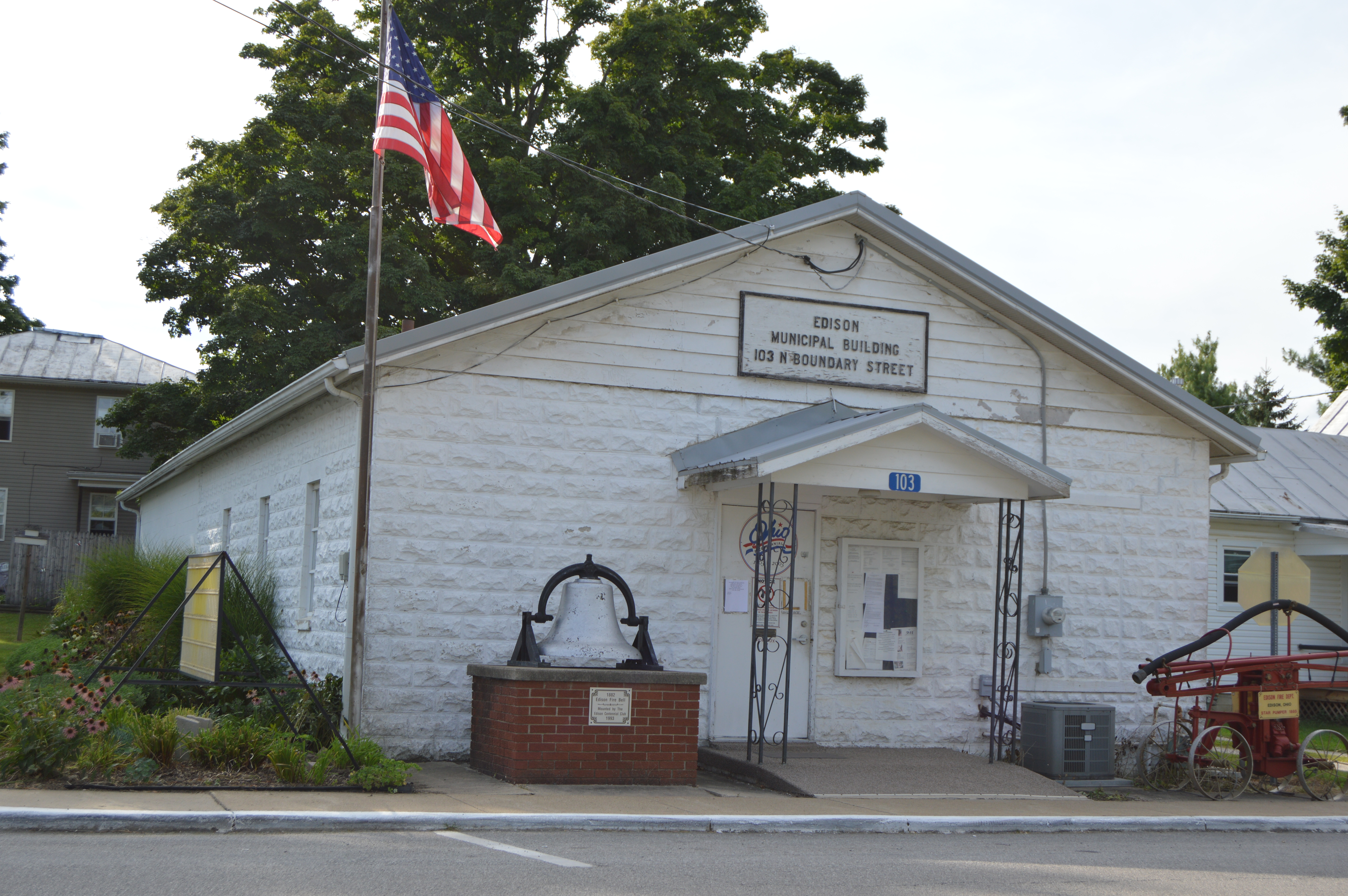 Front and southern side of the Edison village hall, located at 103 N. Boundary Street in Edison, Ohio, United States.